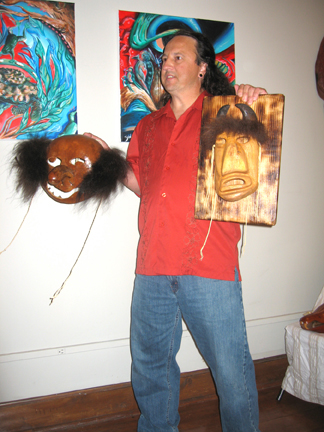 Roger Cain (United Keetoowah Band and Cherokee Nation) explaining Cherokee masks. The one on the left is a booger mask; the one on the right is a buffalo (Woodland bison) effigy dance mask.